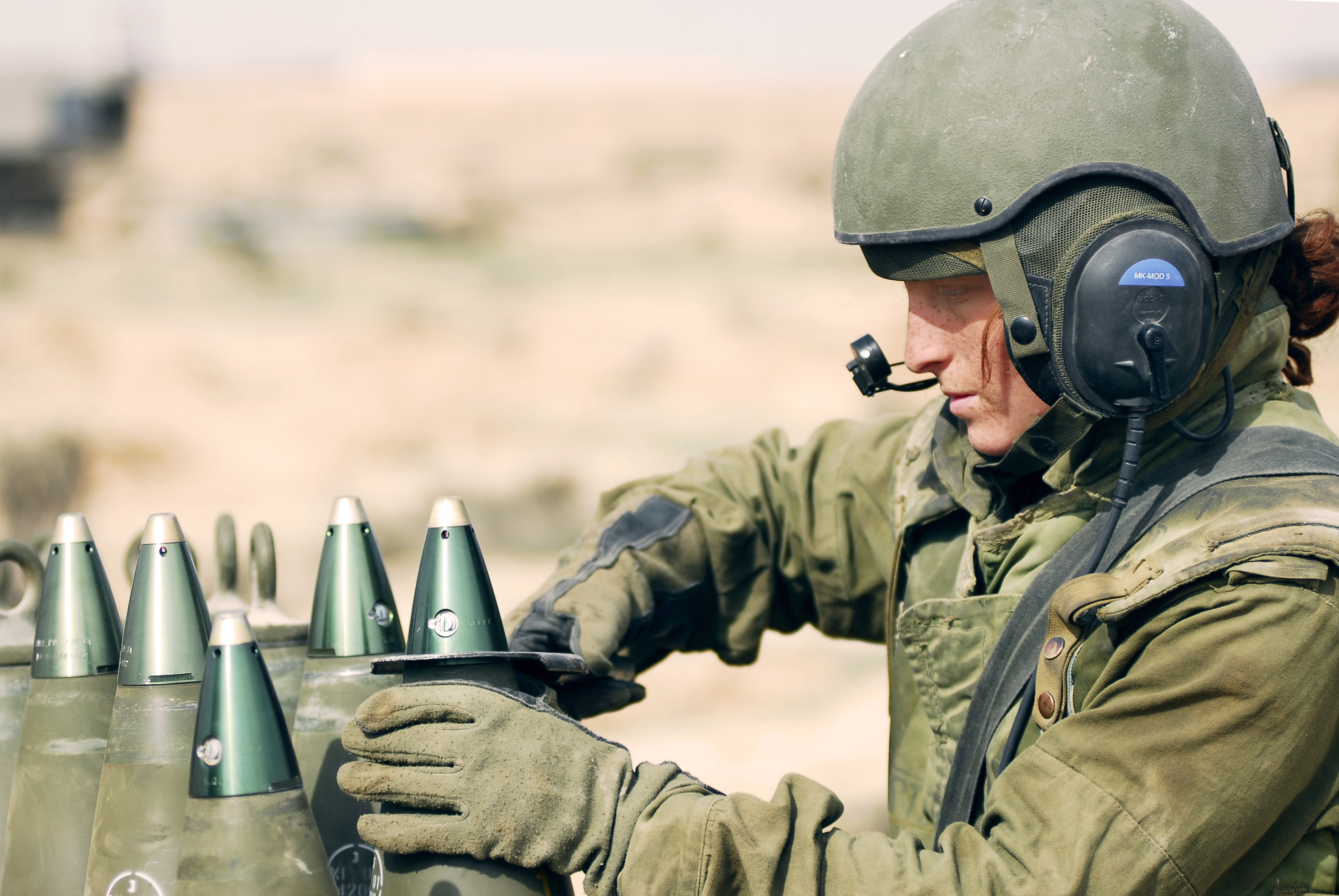 November 20, 2008. Artillery instructors train in order to teach future soldiers of the Artillery School at the Shivta Military Base, located in southern Israel. Featured as "Photo of the Day" on December 1, 2010. מדריכות תותחנים באימון בבית הספר לתותחנים אשר בבסיס שבטה בדרום הארץ. התמונה פורסמה כ"תמונת היום" בתארך דצמבר 1, 2010.